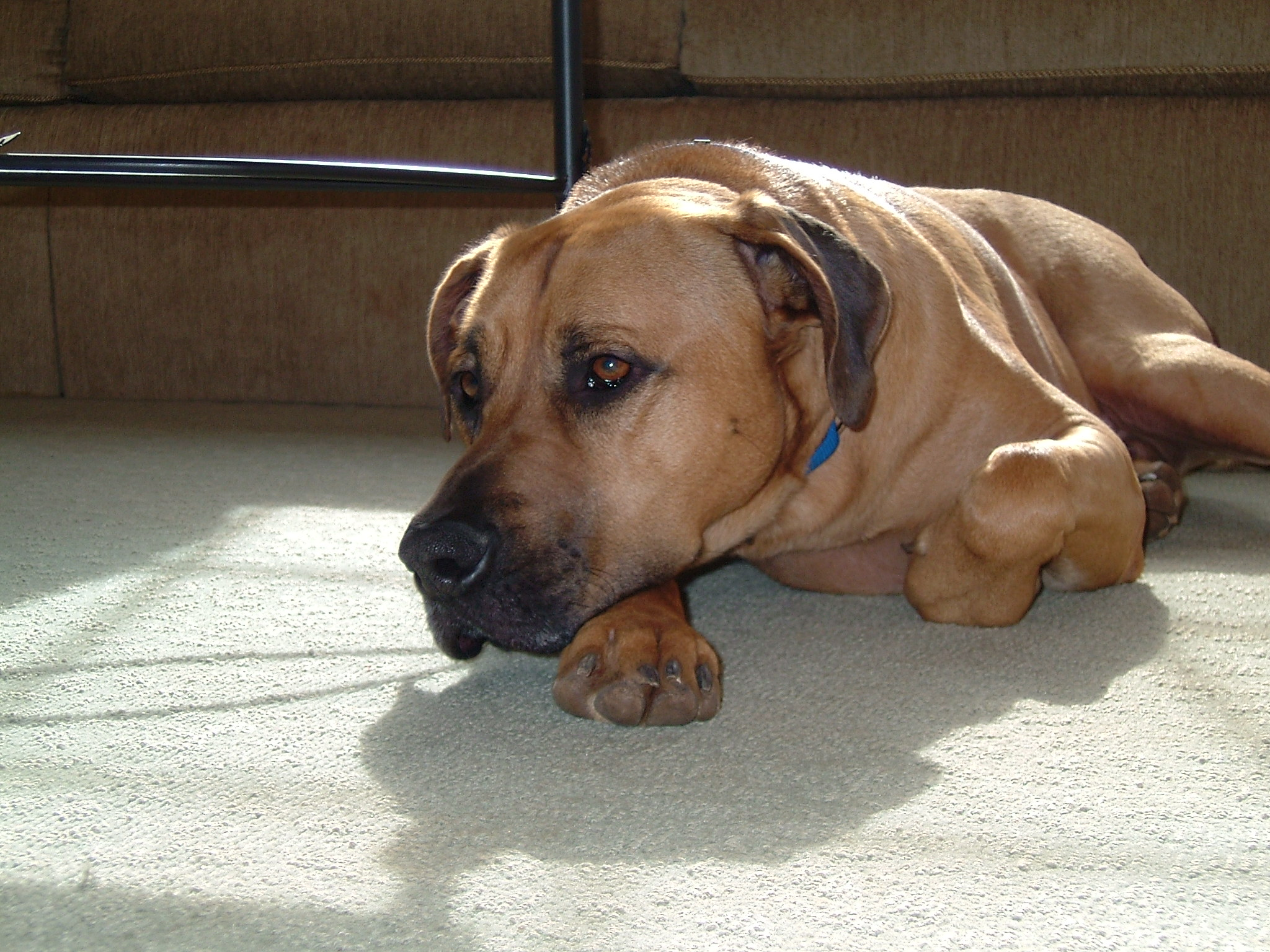 Bowden Damico - Blackmouth Cur